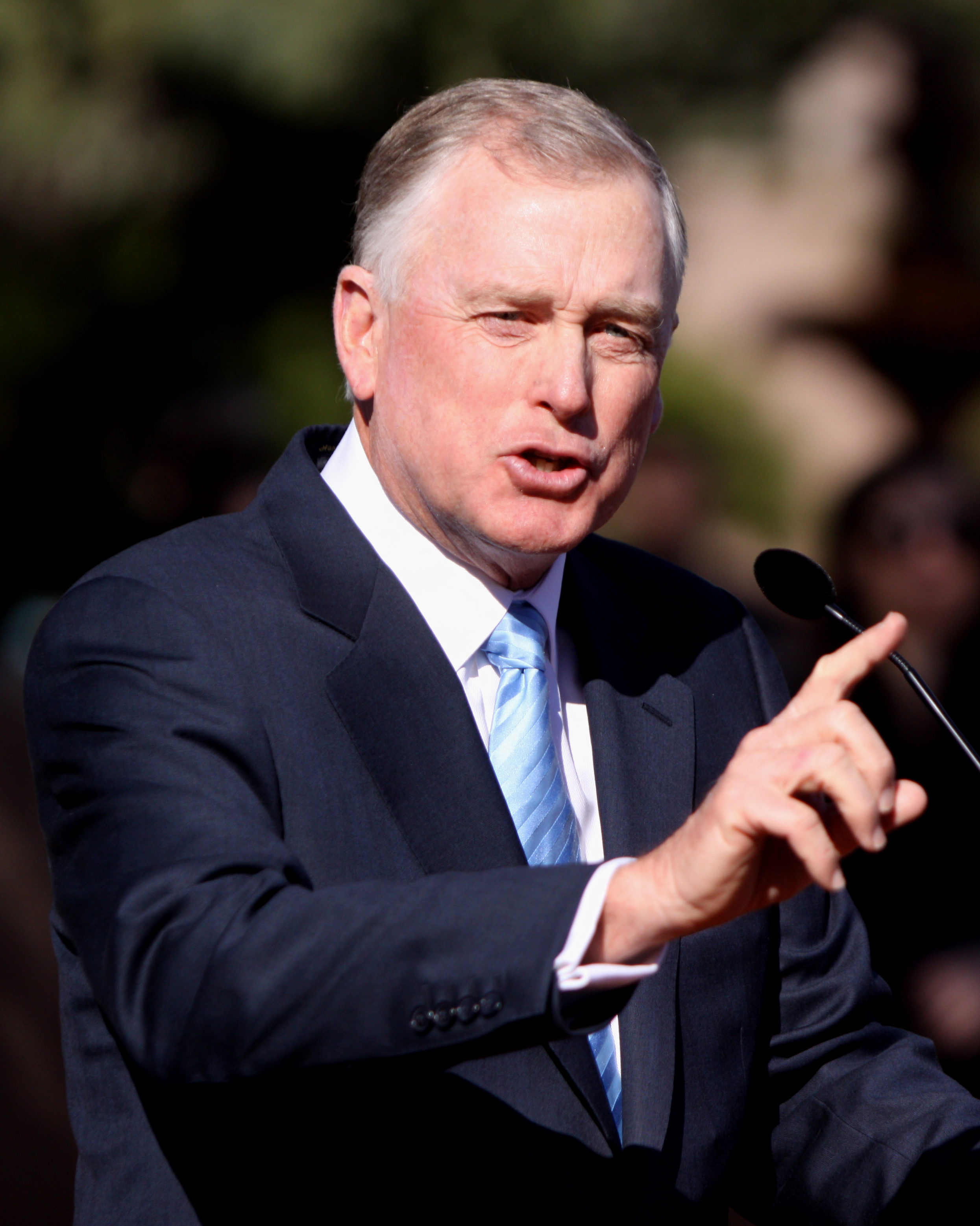 Dan Quayle speaking at a supporters rally for Mitt Romney in Paradise Valley, Arizona on December 6, 2011.